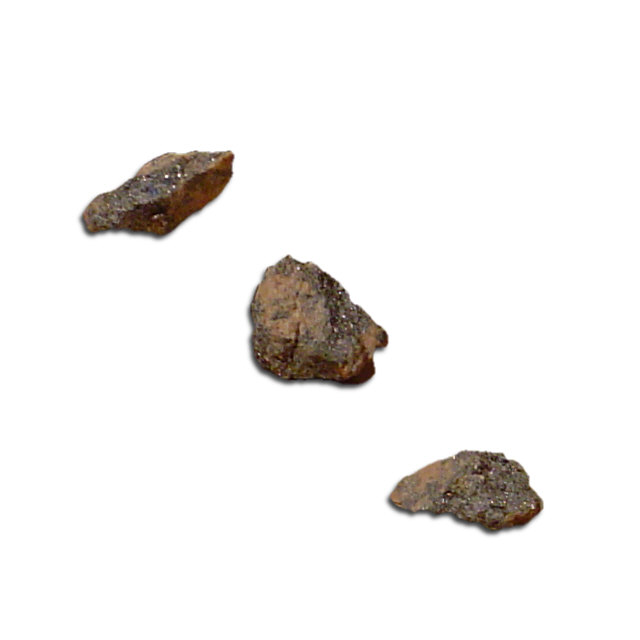 These mineral images are free to use how you wish.